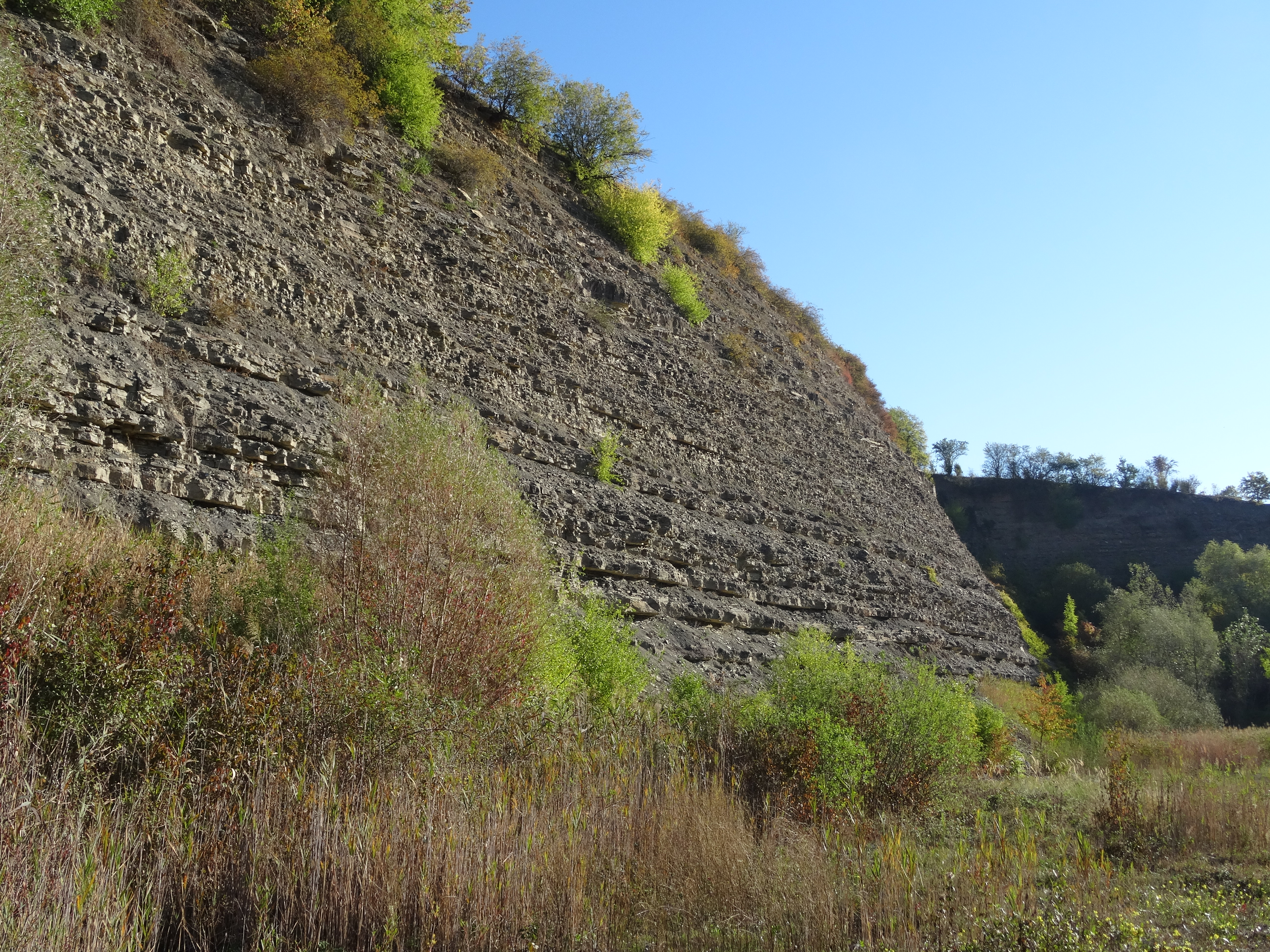 Geotope 675A008: Former limestone-quarry (upper muschelkalk) SSW of Dettelbach (Kitzingen, Bavaria)